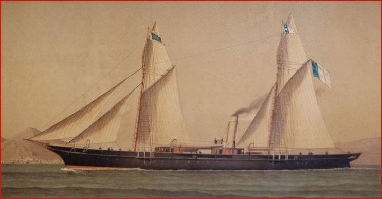 lithography